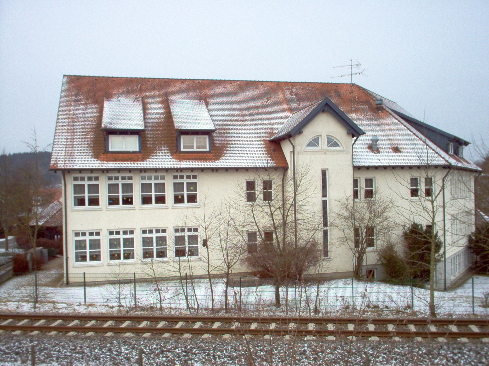 School building in Sigmaringendorf, Germany